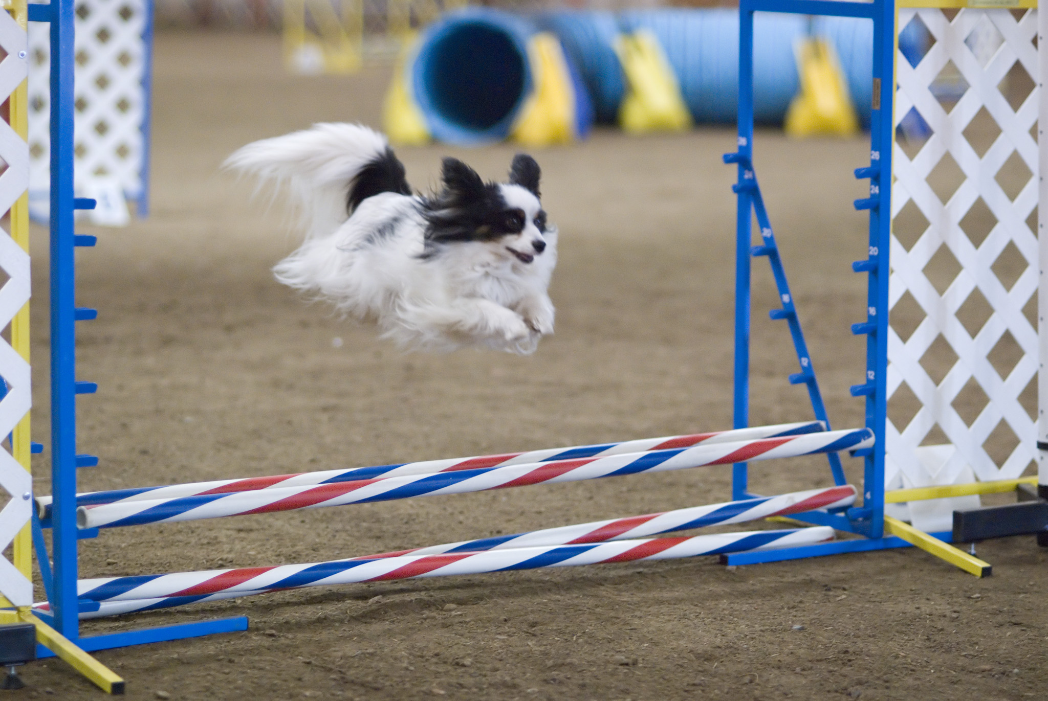 A Papillon dog at an agility competition.